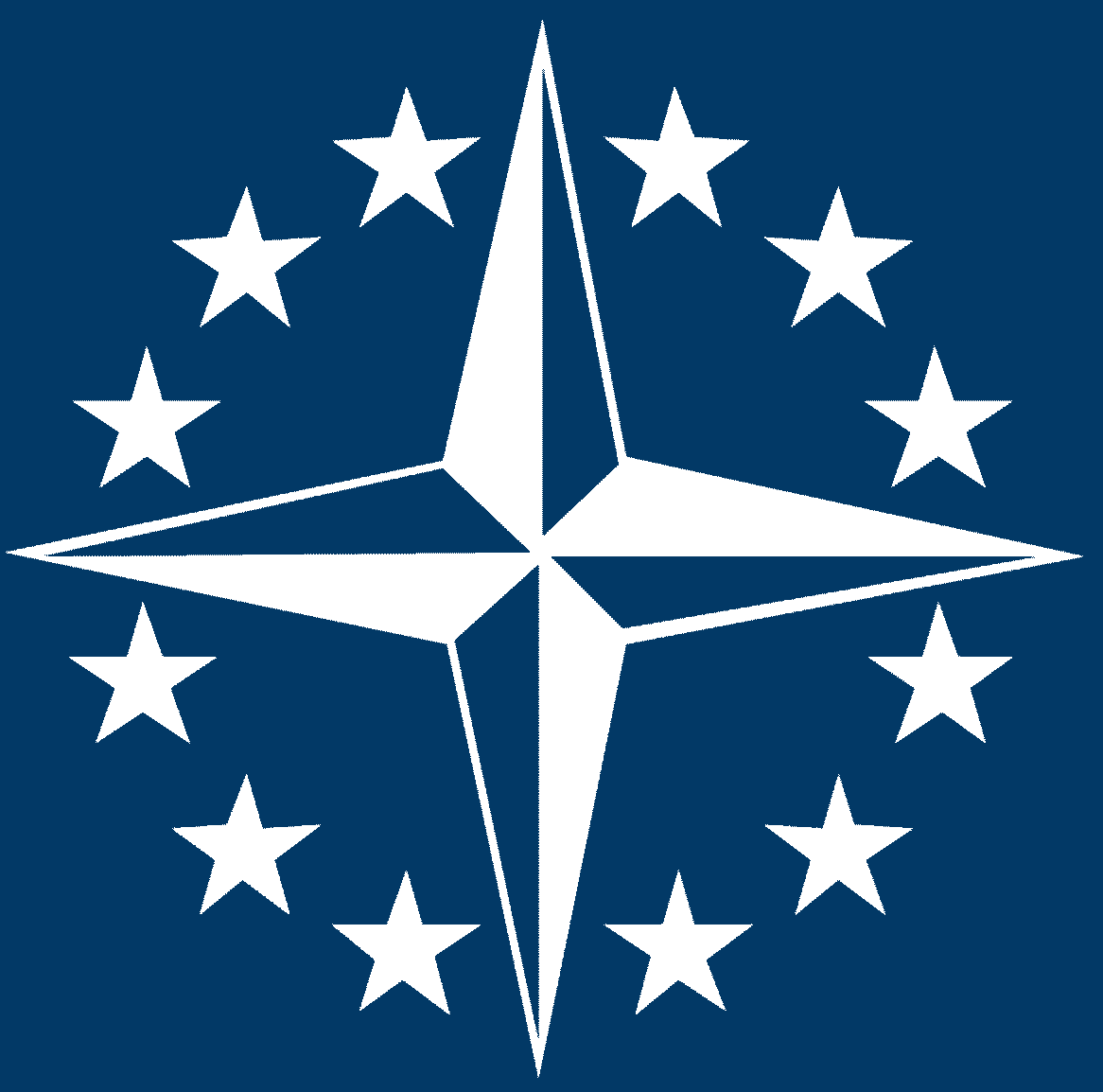 The logo of the Atlantic Club of Bulgaria was created in 1990 by the Club's founding President Dr. Solomon Passy. It is an amalgamation of the logo's of NATO and the EU, and symbolizes the unity of the Euro-Atlantic community, imbedding the slogan "Unity Makes the Force". This logo was later adopted by dozens of other Atlantic NGO's created in Central & Easter Europe. In 2009 Foreign Minister Passy proposed this logo to officially replace the current logo of NATO, as symbol of the new wave in Trans-Atlantic relations, following the return of France to the military organization of NATO and the election of Obama as US President.